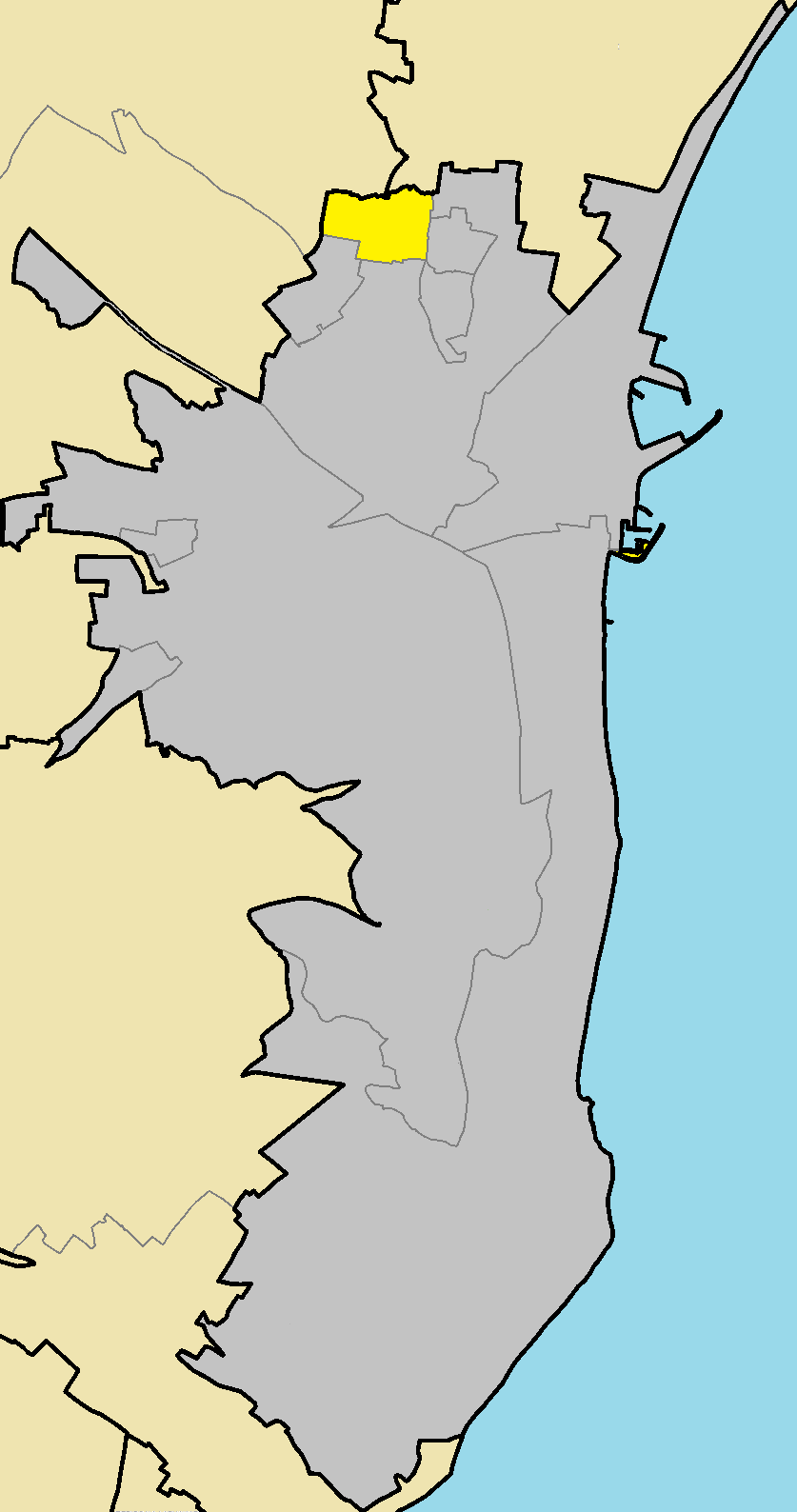 Kokkines in Larnaca Municipality.